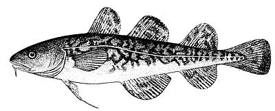 Line drawing of Microgadus tomcod